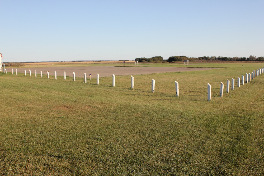 Luseland Airport:Luseland Airport